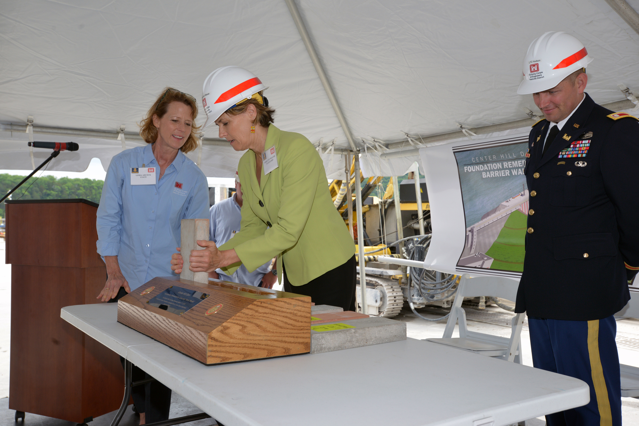 Linda Adcock (Left), project manager for the U.S. Army Corps of Engineers Nashville District Center Hill Dam Safety Project, assists Tennessee State Rep. Terri Lynn Weaver place a ceremonial concrete form into a small-scale model commemorating the completion of the Center Hill Dam Barrier Wall Project May 18, 2015, in Lancaster, Tenn., on the work platform of the dam. (USACE photo by Mark Rankin)